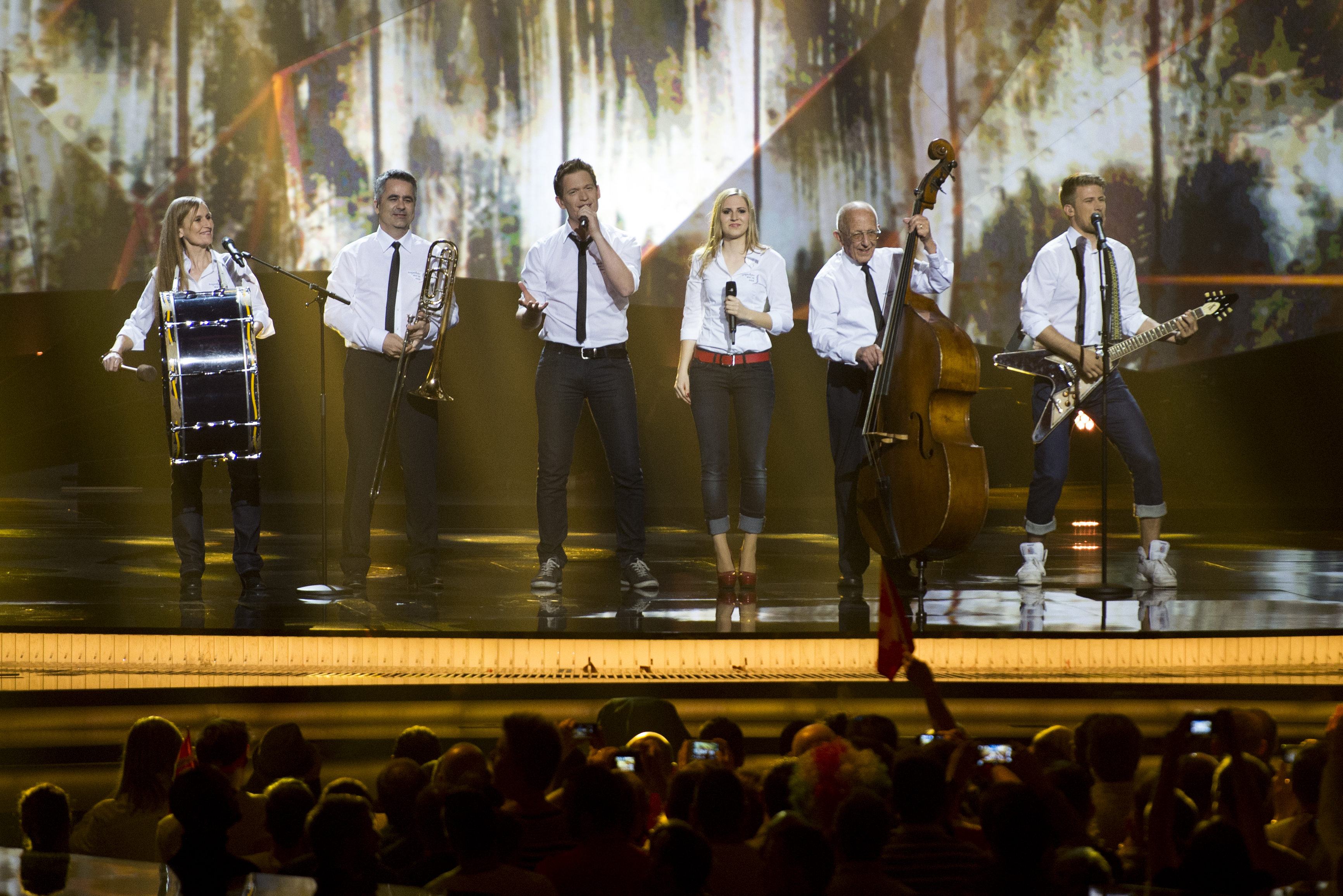 Takasa2 representing Switzerland with the song "You and Me" during the second dress rehearsal of the second semi final of the Eurovision Song Contest 2013 in Malmö. (Help translate this text)